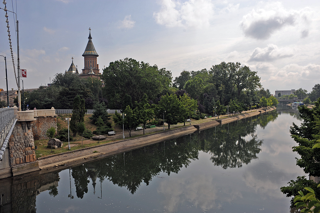 Bega river from the Traian Bridge